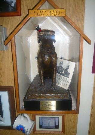 Photograph taken by the assistant navigator and public affairs officer of the USCGC Campbell as part of his duties as the later. Shows the statue of Sinbad placed in the mess hall of WMEC-909 to protect the ship. No-one but chiefs may touch Sinbad or the rawhide bone balanced on his nose, or else suffer bad luck.